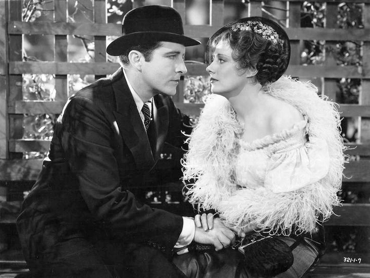 Promotional photograph for the film Back Street starring John Boles and Irene Dunne